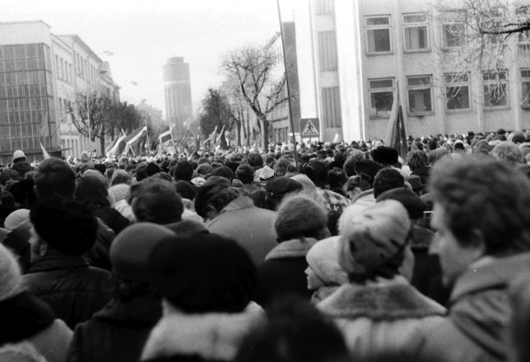 Hoisting of a Lithuanian flag in Šiauliai, 1989-02-16